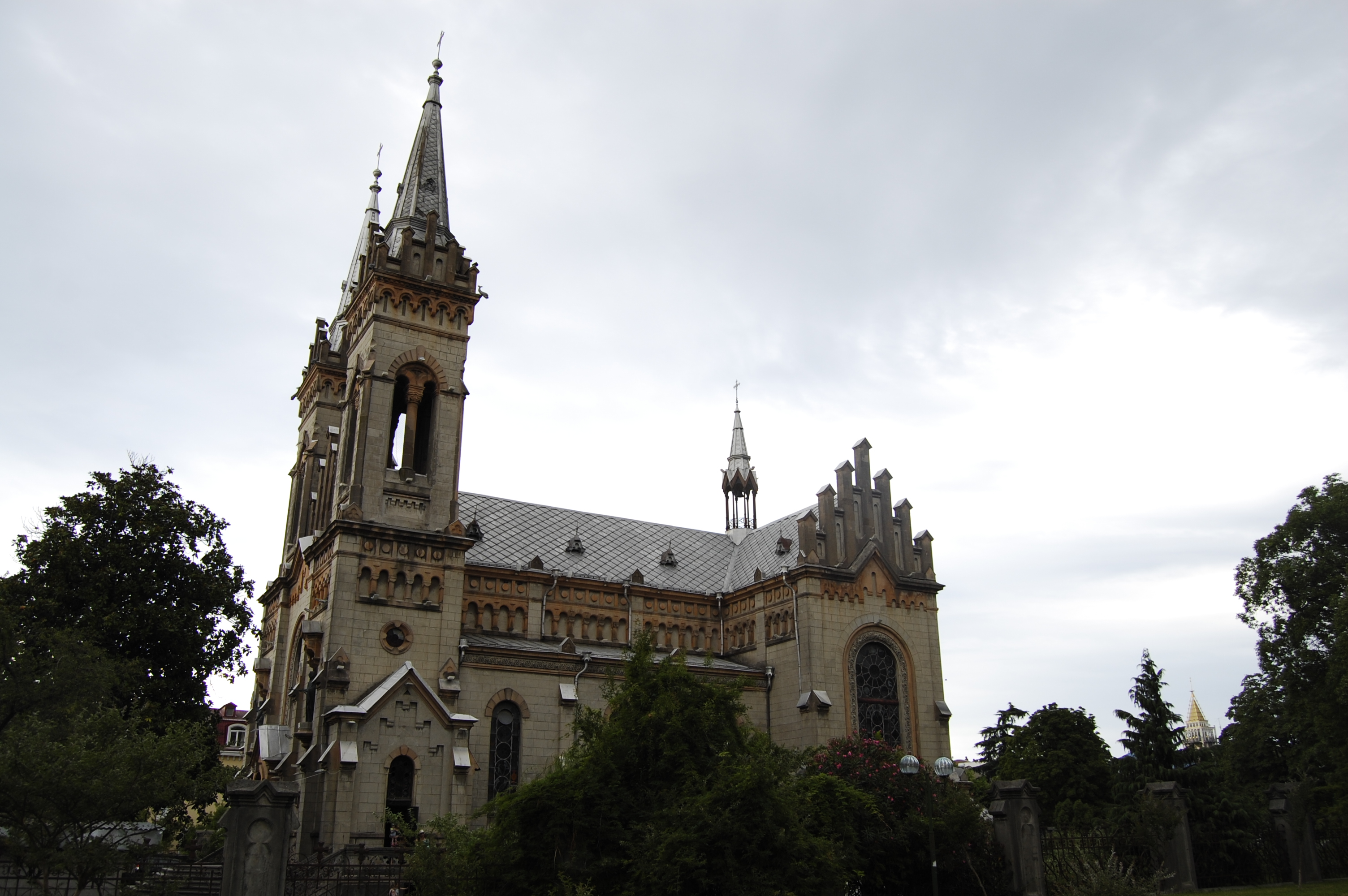 Batumi - Cathedral of the Mother of God Georgia - Sakartvelo